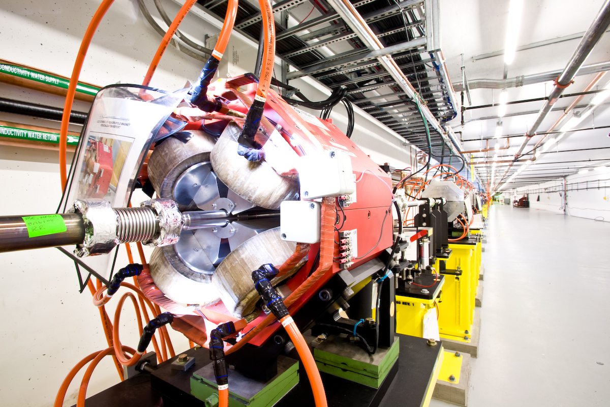 Quadropule magnet used to maintain the shape of the accelerated electron beam before entering the undulator